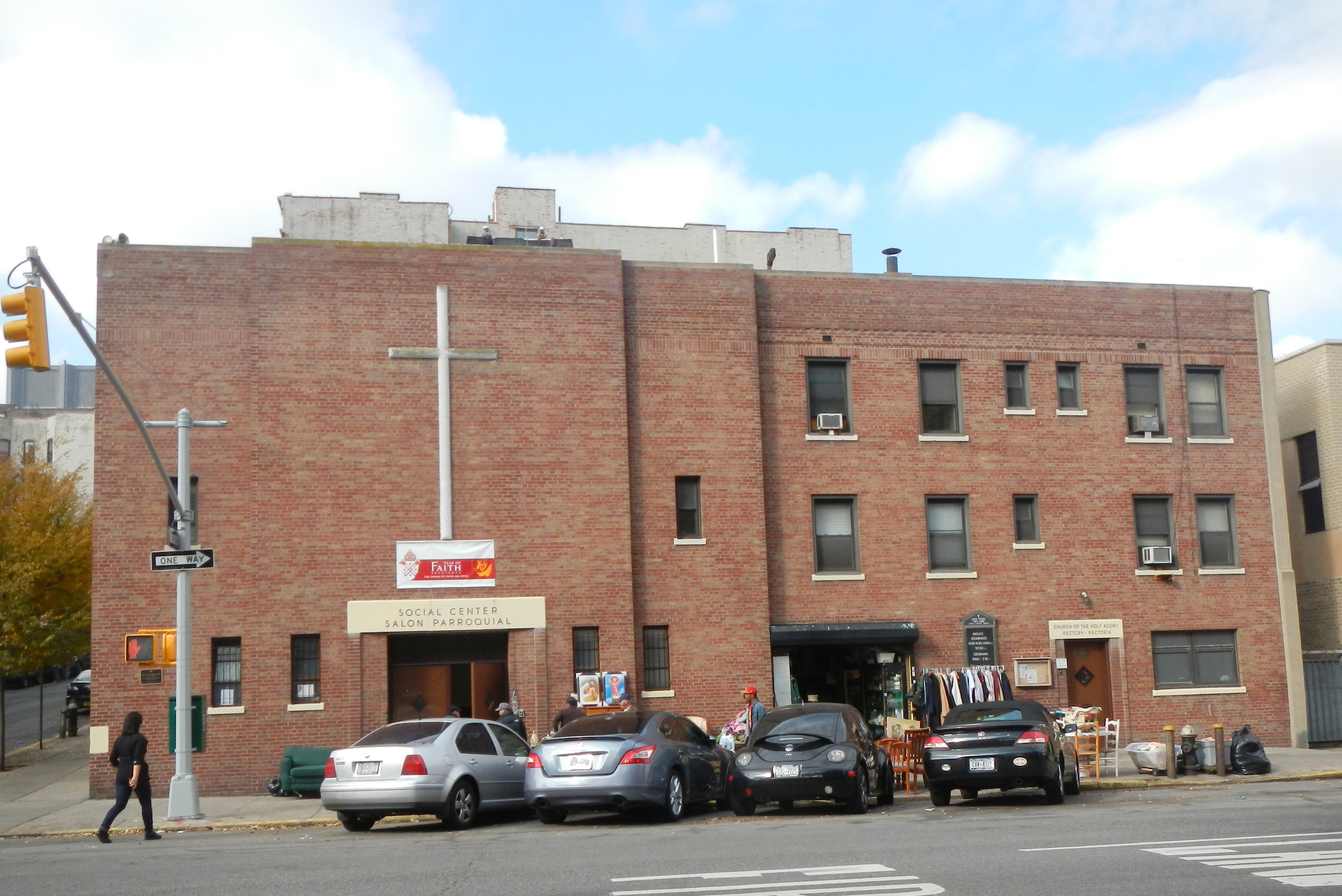 Looking northwest across 3d Avenue at community house and rectory of Church of the Holy Agony on a mostly sunny midday.